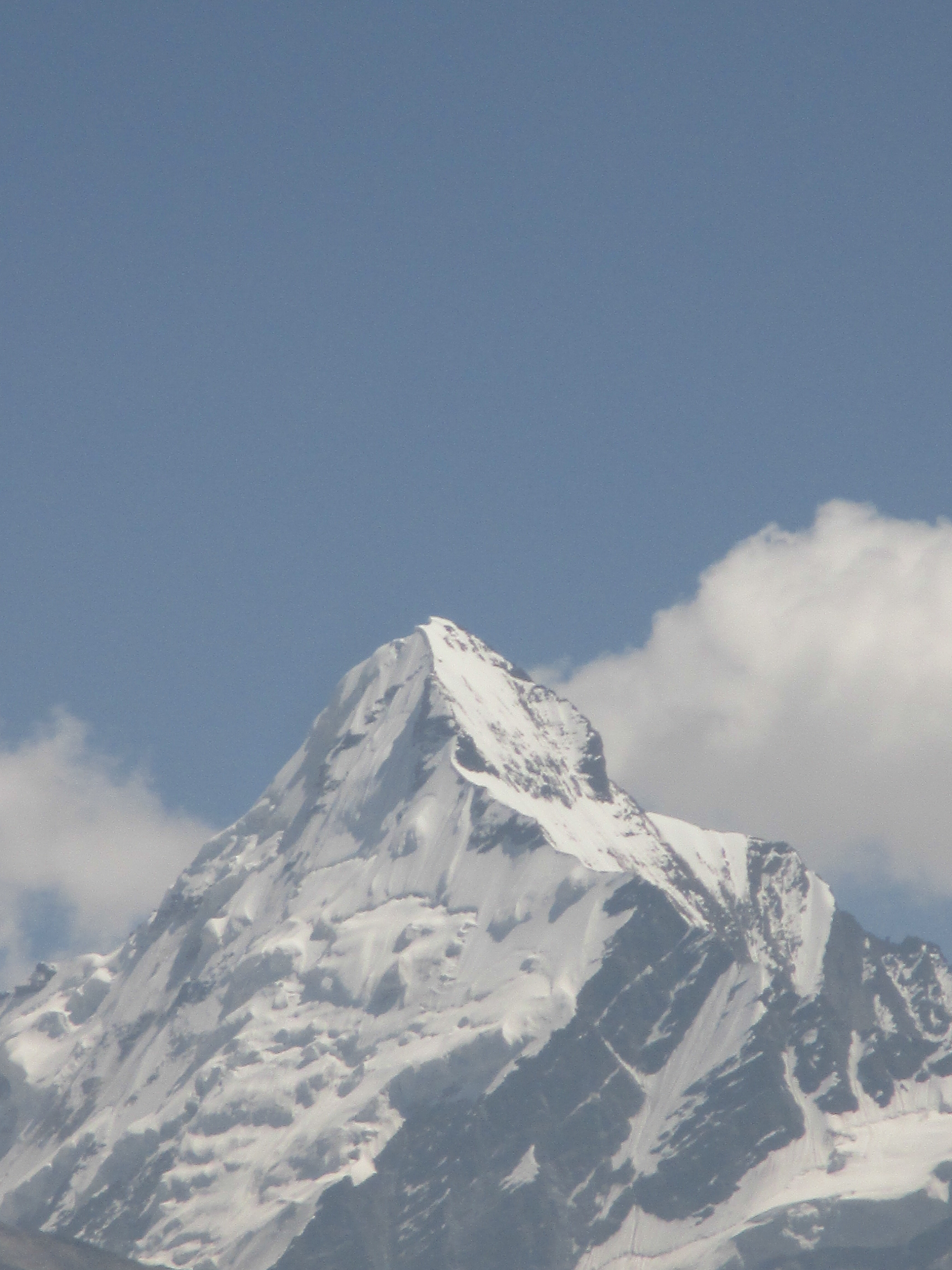 Mt. Sudarshana,viewed before Raktavaran Glacier